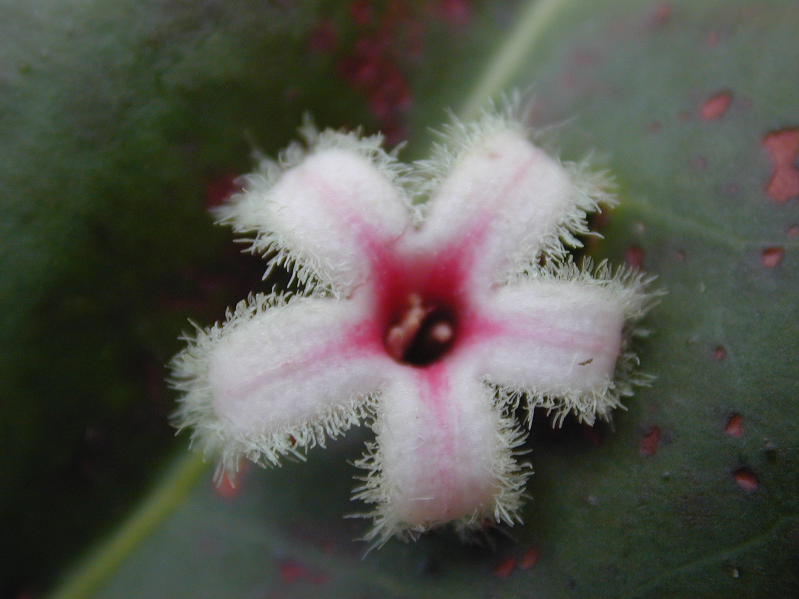 Cinchona pubescens (flower). Location: Maui, Makawao Forest Reserve